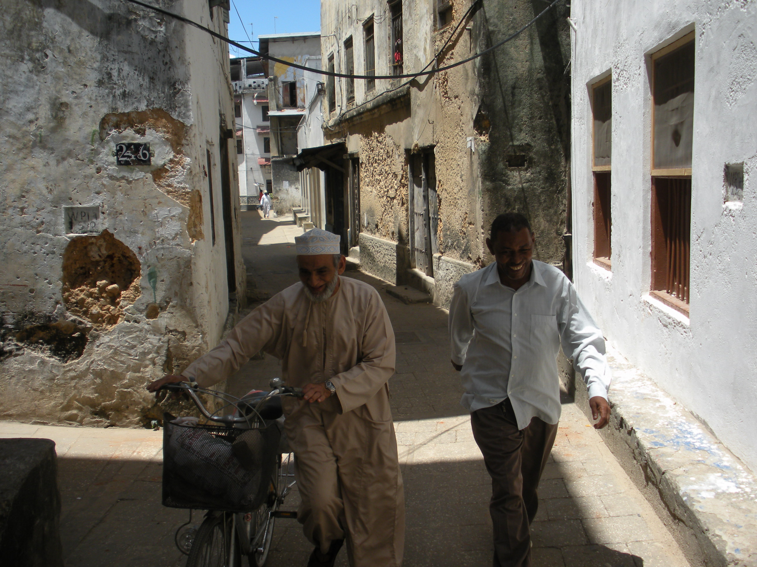 Men walking in an old narrow street — in Stone Town, Zanzibar City, Zanzibar. Credits This photo has been taken by Mr.Chen Hualin.